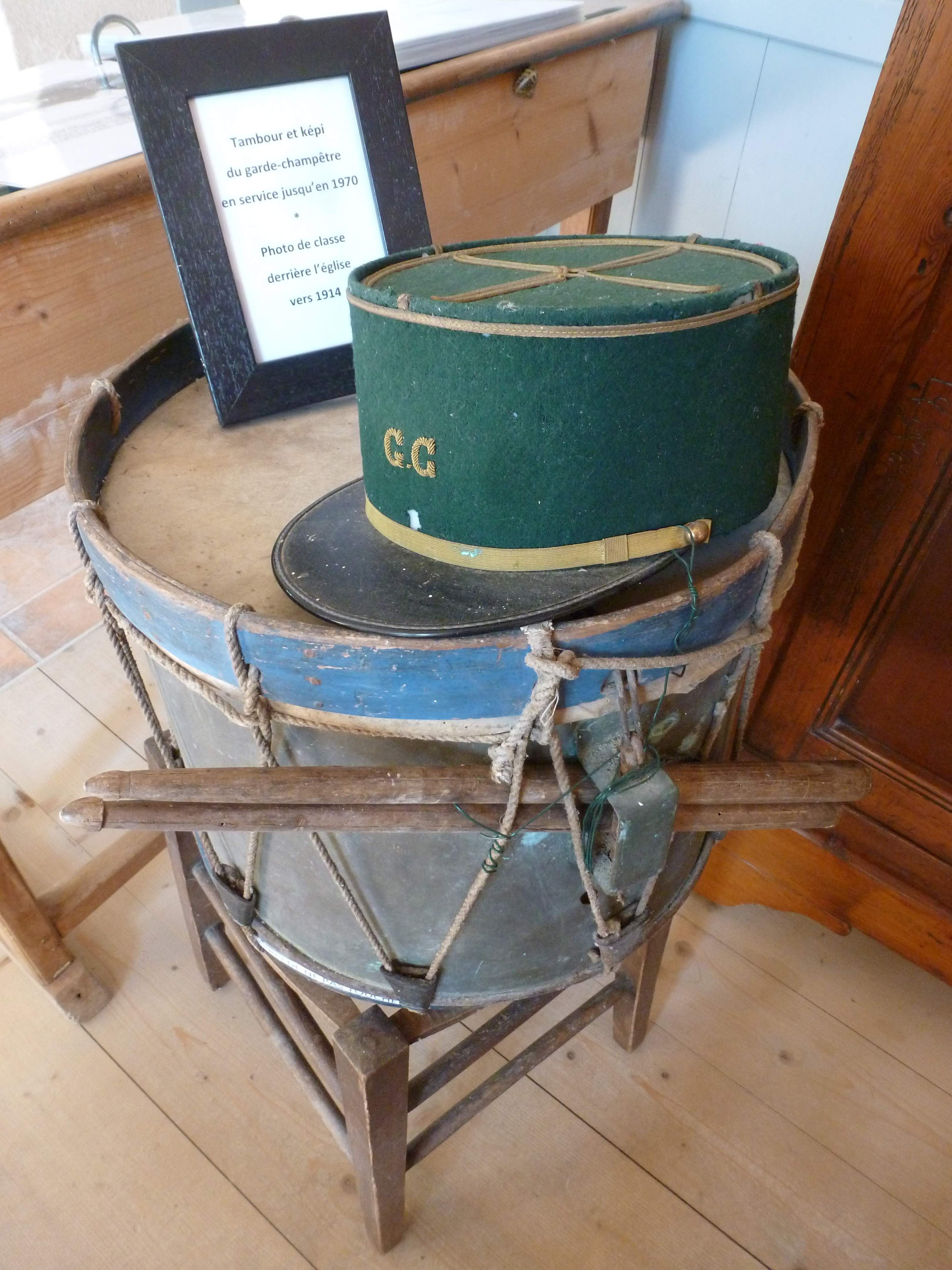 Drum and cap of the constable from Talmont-17 until the seventies.